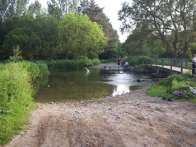 Crookford in Nottinghamshire. The ford at Crookford carries what is now a track, but was perhaps once a coach road, over the River Poulter. The river here forms the boundary between the civil parishes of Bothamsall and Elkesley.